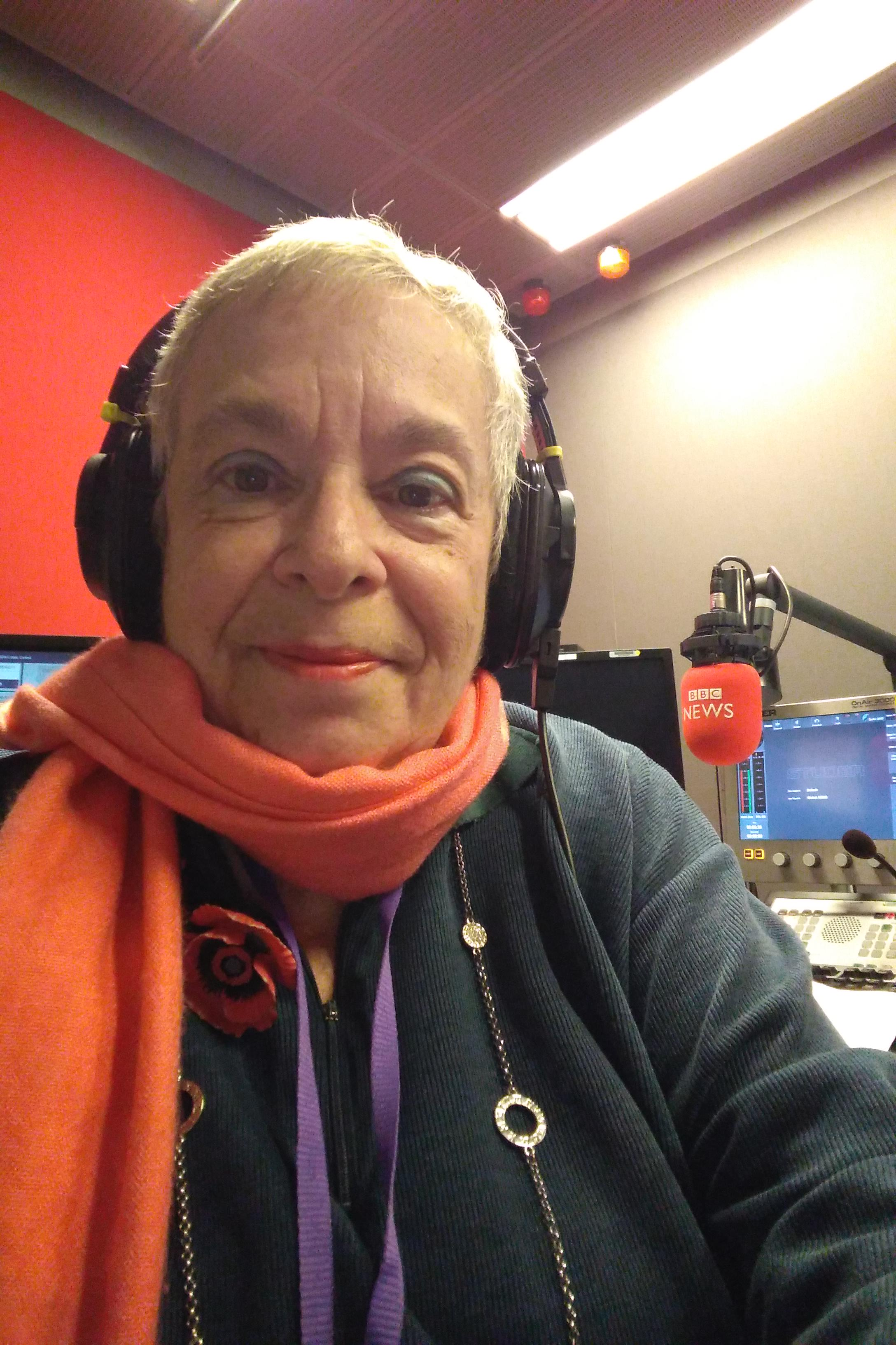 Photograph of Carol Gould about to broadcast in a BBC radio studio, November 2018